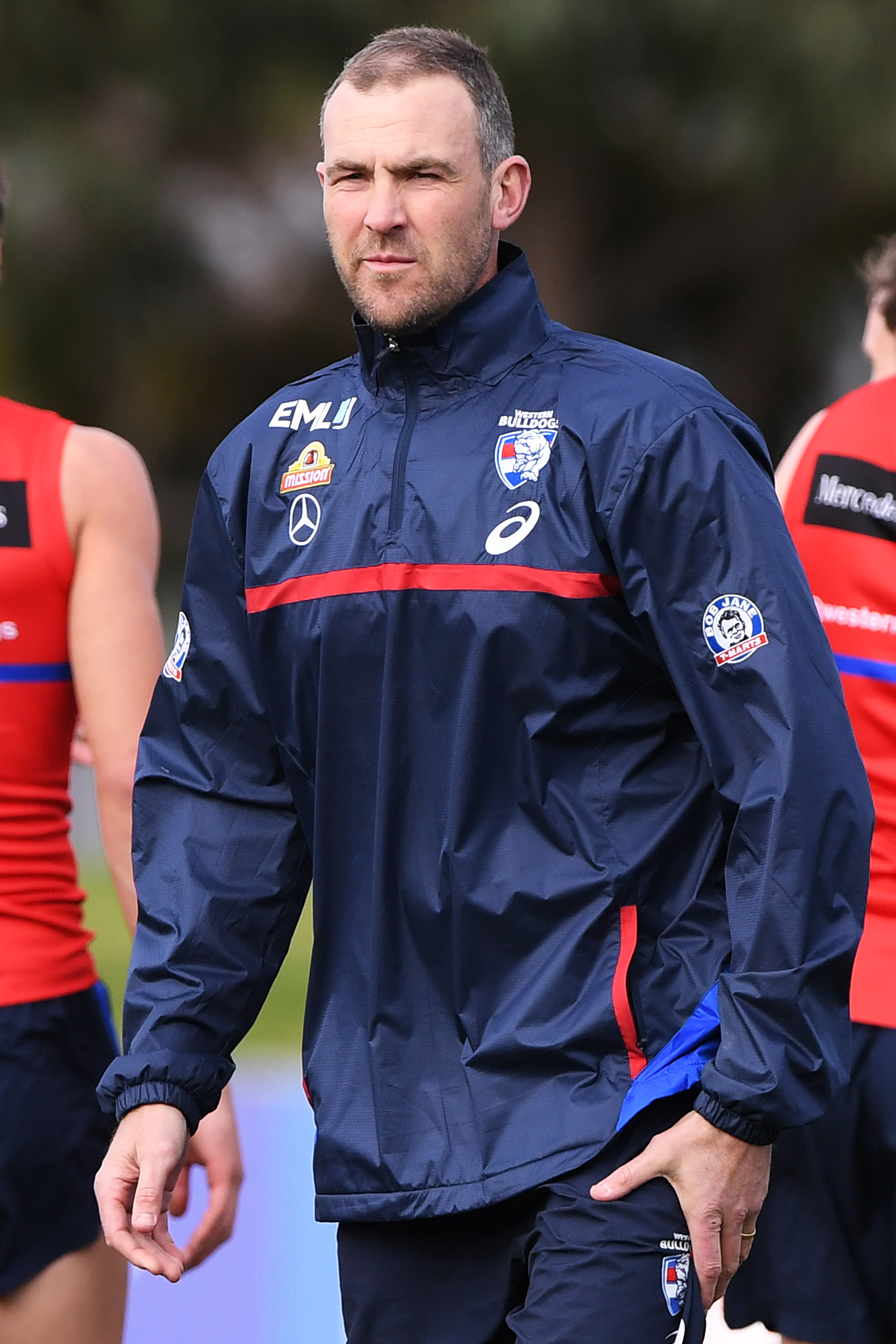 Steven King of the Western Bulldogs during Western Bulldogs training on 7 August 2018 at Whitten Oval in Melbourne, Victoria.